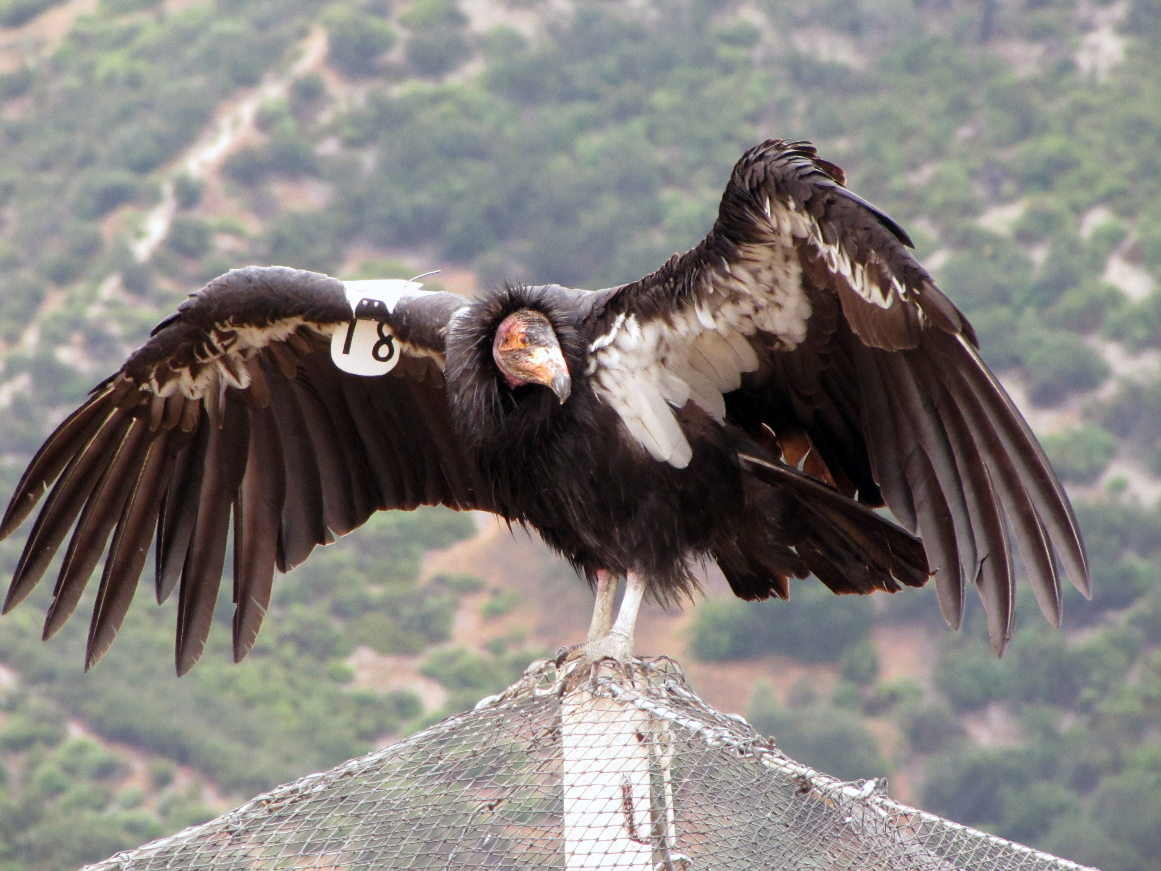 Endangered California condor wearing tag #18 at Pinnacles National Monument, CA. CDFW photo by Carie Battistone.